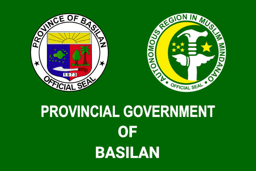 Provincial Flag of Basilan